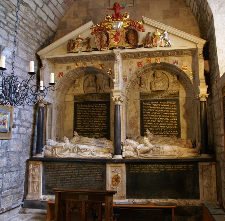 St Mary's Church, Haddington, Scotland. Lauderdale Aisle.